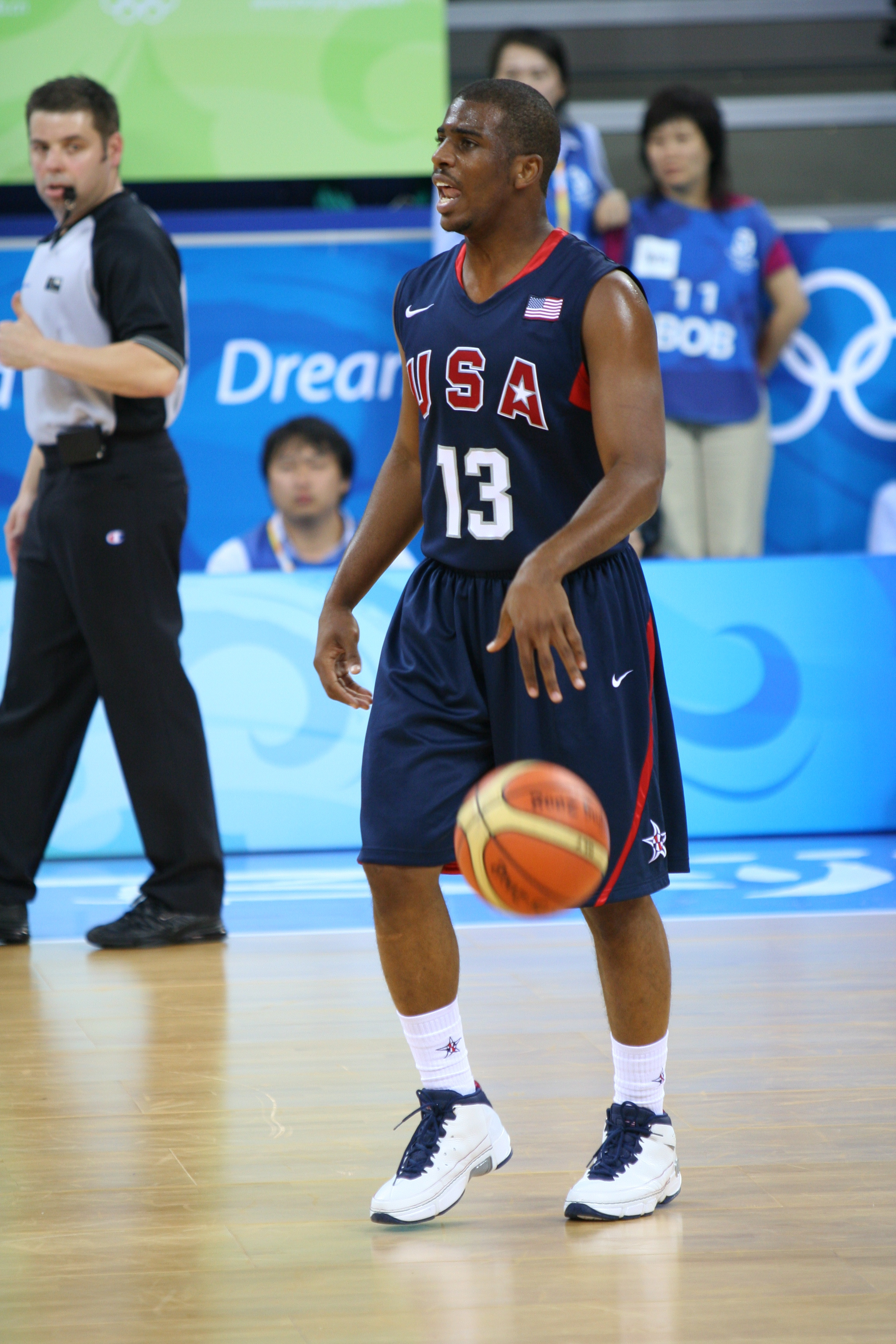 Chris Paul of New Orleans Hornets, semi-final game against Spain at the 2008 Summer Olympic Games.